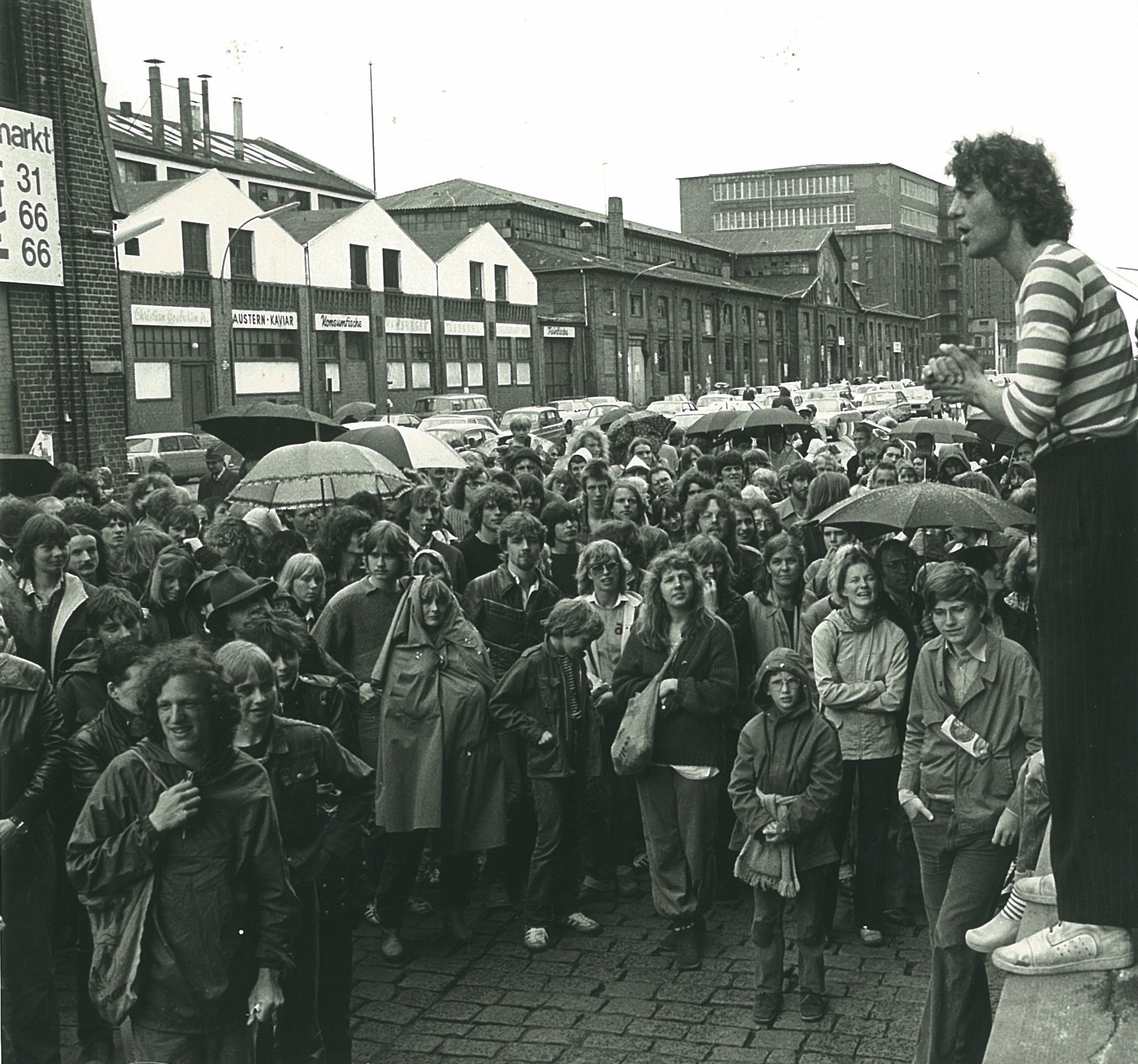 Natias Neutert philosophizes at the port of Hamburg, 1978.